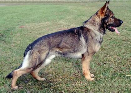 Sable German Shepherd